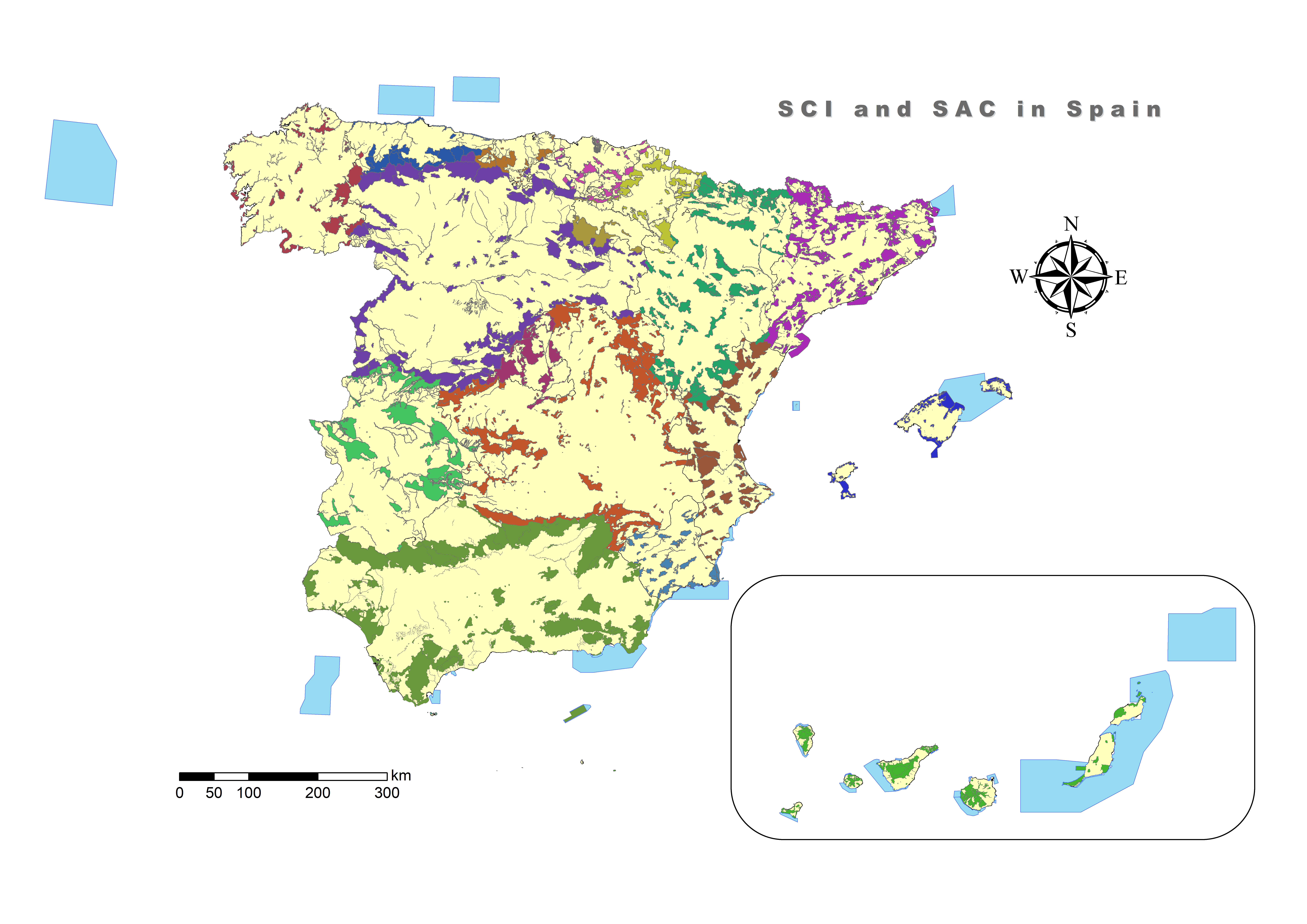 Sites of Community Importance (SCI) and Special Areas of Conservation (SAC) in Spain.